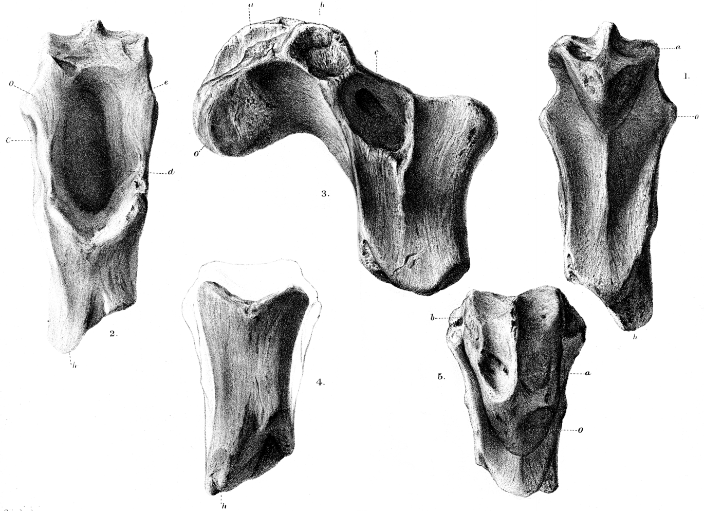 Holotype neural arch of Craterosaurus. 1 - dorsal view. 2 - ventral view. 3 - lateral view. 4 - anterior view. 5 - posterior view.